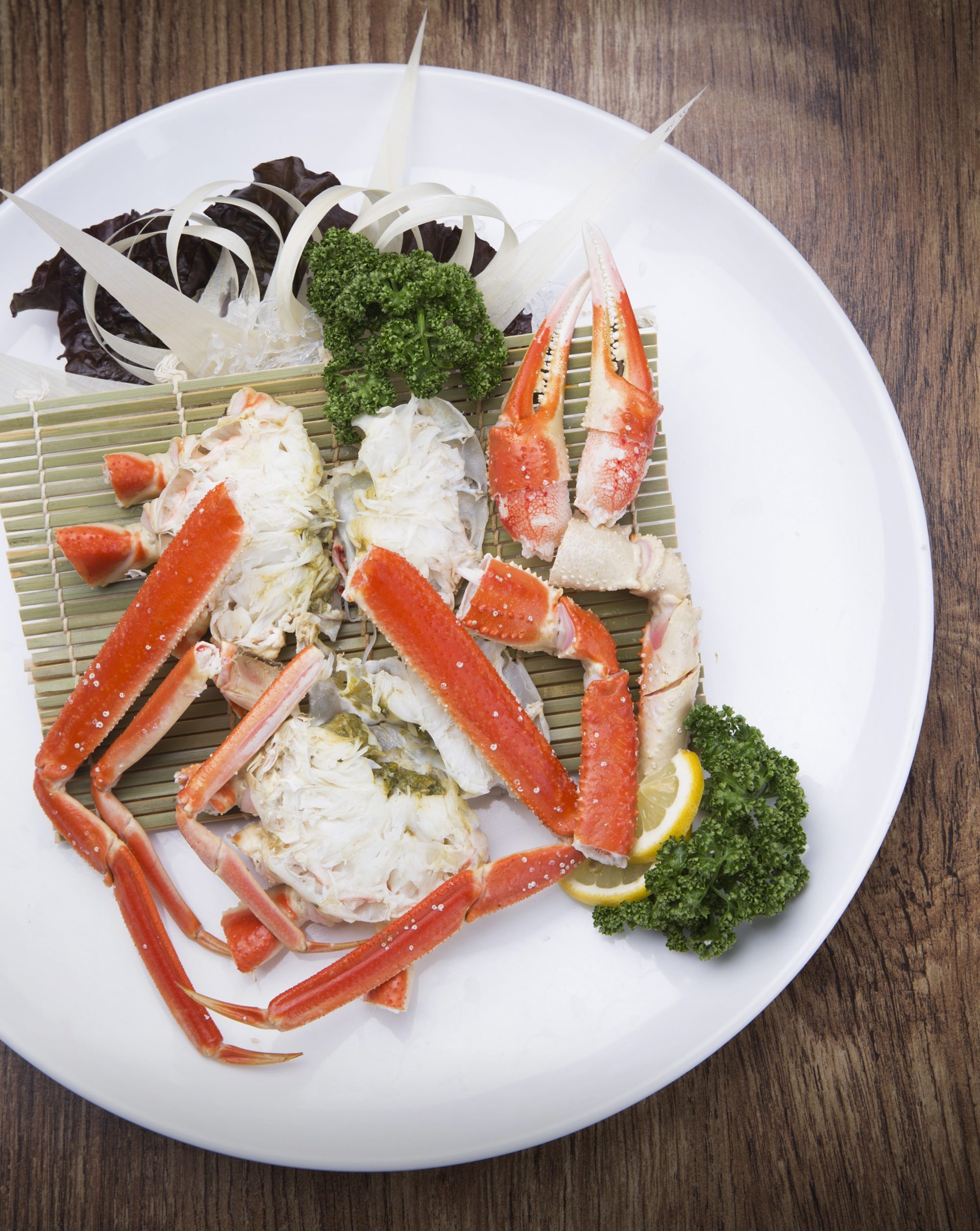 Jasuk-daege (steamed snow crab)